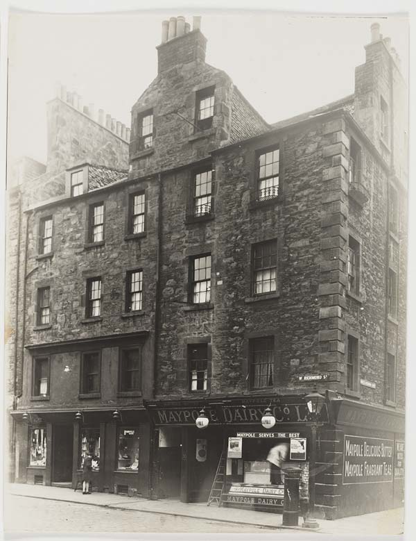 West Richmond Street, Edinburgh: Photograph of a three storey tenement with shops on the ground floor. There are two shops one without a sign and one with a sign that reads 'Maypole Dairy Co. Ltd.' there are other signs in the window and along the side of the building which is visible on the right. 0n the left there is a shop which has a small sign for 'Bournville Cocoa' but no other signs to indicate what it is, above it the wall is plastered which stands out because the rest of building is bare stone. Both shops have lights outside them positioned to illuminate the contents of their windows. A woman stands outside the shop on the left looking into the window display. Inside the Maypole Dairy there is a person in a white coat standing in the window bending over into the shop. Outside on the corner of the street there is a post box with a boy leaning against it. Beside the post box there is a streetlamp.